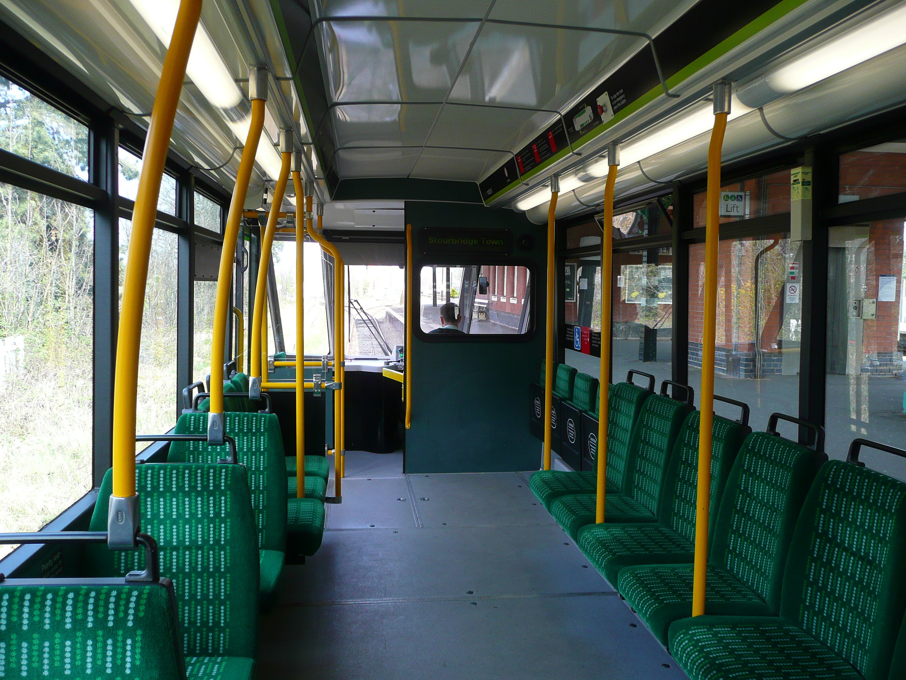 Inside the PPM60 / Class 139 002 railcar whilst at Stourbridge Junction station.